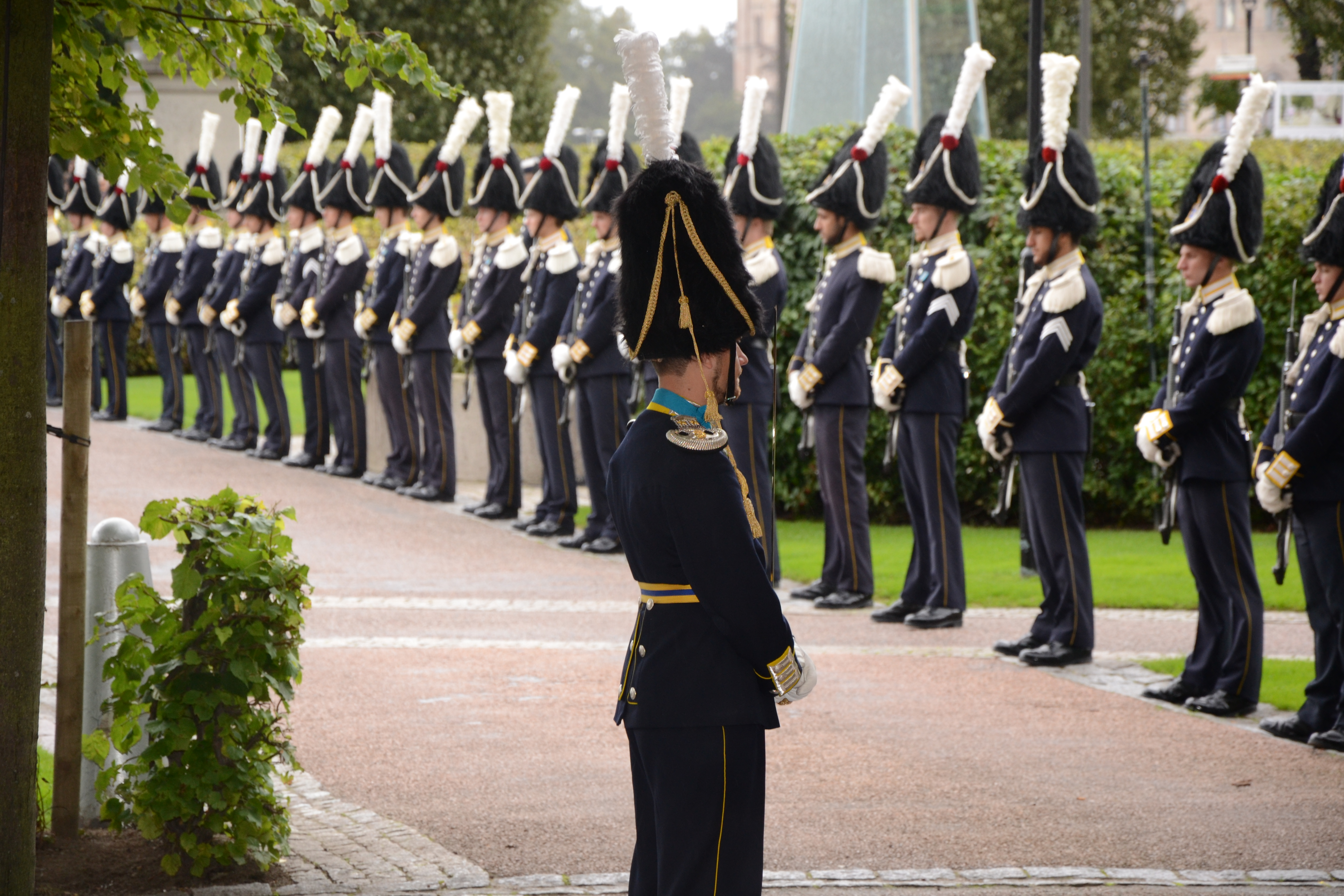 Opening of the swedish parliament, 15-sep-2011